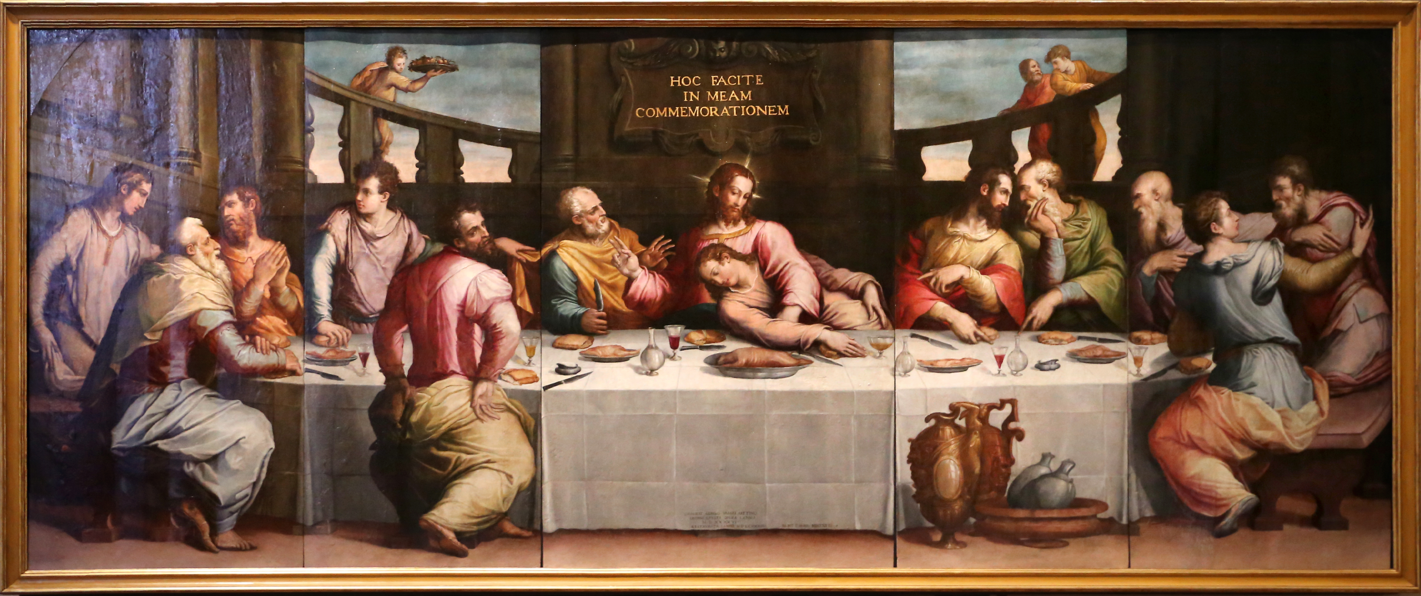 Museo dell'Opera di Santa Croce (Florence)